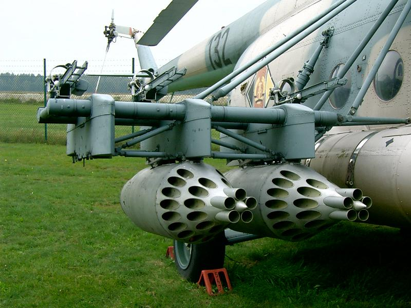 Armed helicopter Mil Mi-8TB of the National People's Army.